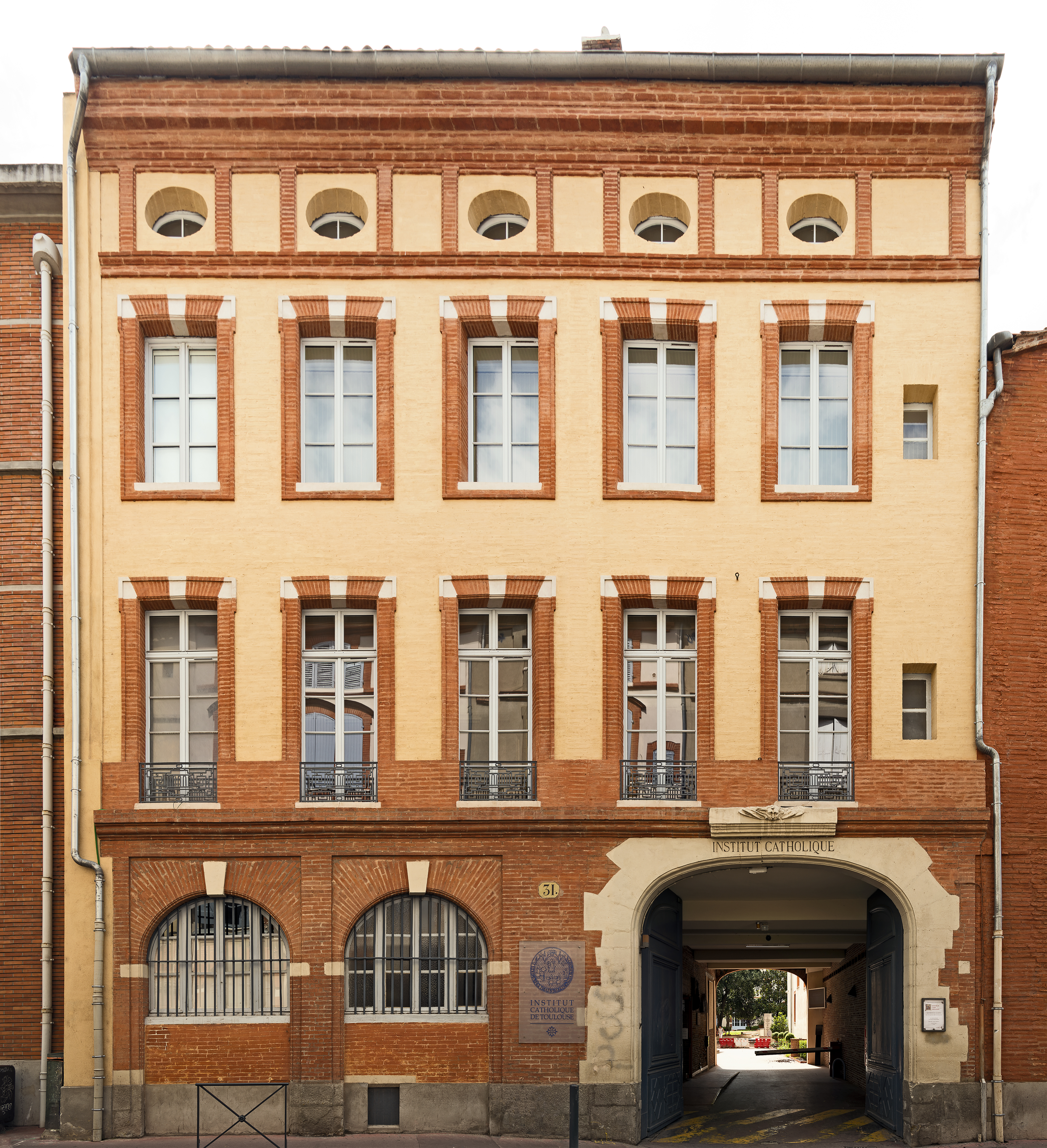 Old cannon foundry, currently Catholic University of Toulouse - Facade on rue de la Fonderie. Architect: Henry Bach (1815-1899)